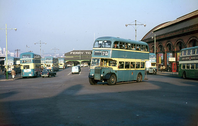 Birkenhead Corporation buses at Woodside Ferry terminal in 1966. They are Guy Arab double deckers with Massey bodywork - rebodied after the Second World War.